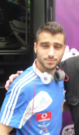 In Jachranka during EURO 2012.